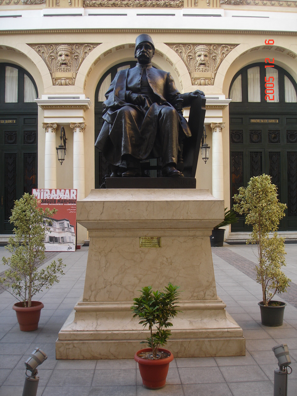 A statue of Nubar Pasha at the entrance of Mohamed Aly theatre ( now it's called Sayyed Darwish theatre); the opera house of Alexandria. (Author: Amr Fayez)